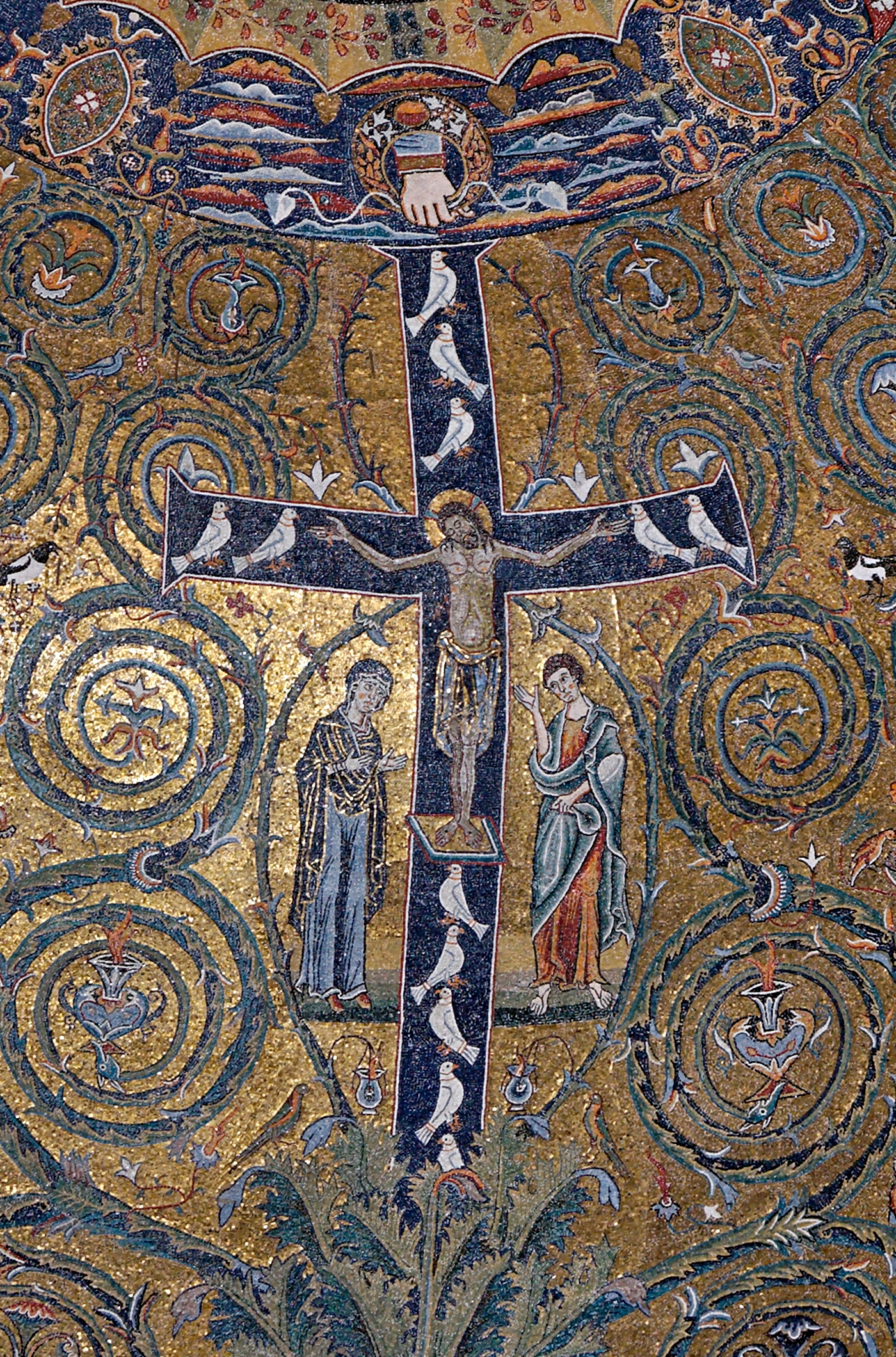 Triumph of the Cross. Detail from the apsis mosaic from Basilica San Clemente in Rome, 12th century.